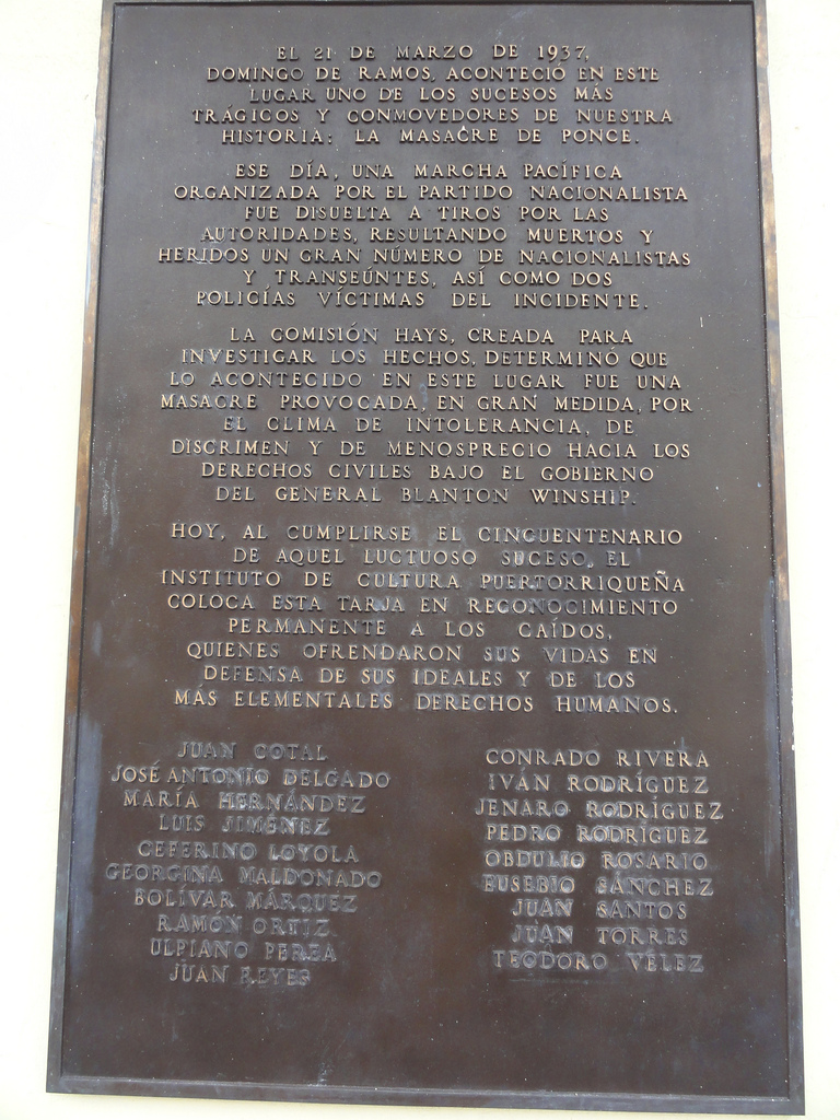 Remembrance Plaque at Casa de la Masacre (Ponce Massacre House) in Barrio Cuarto in Ponce, Puerto Rico